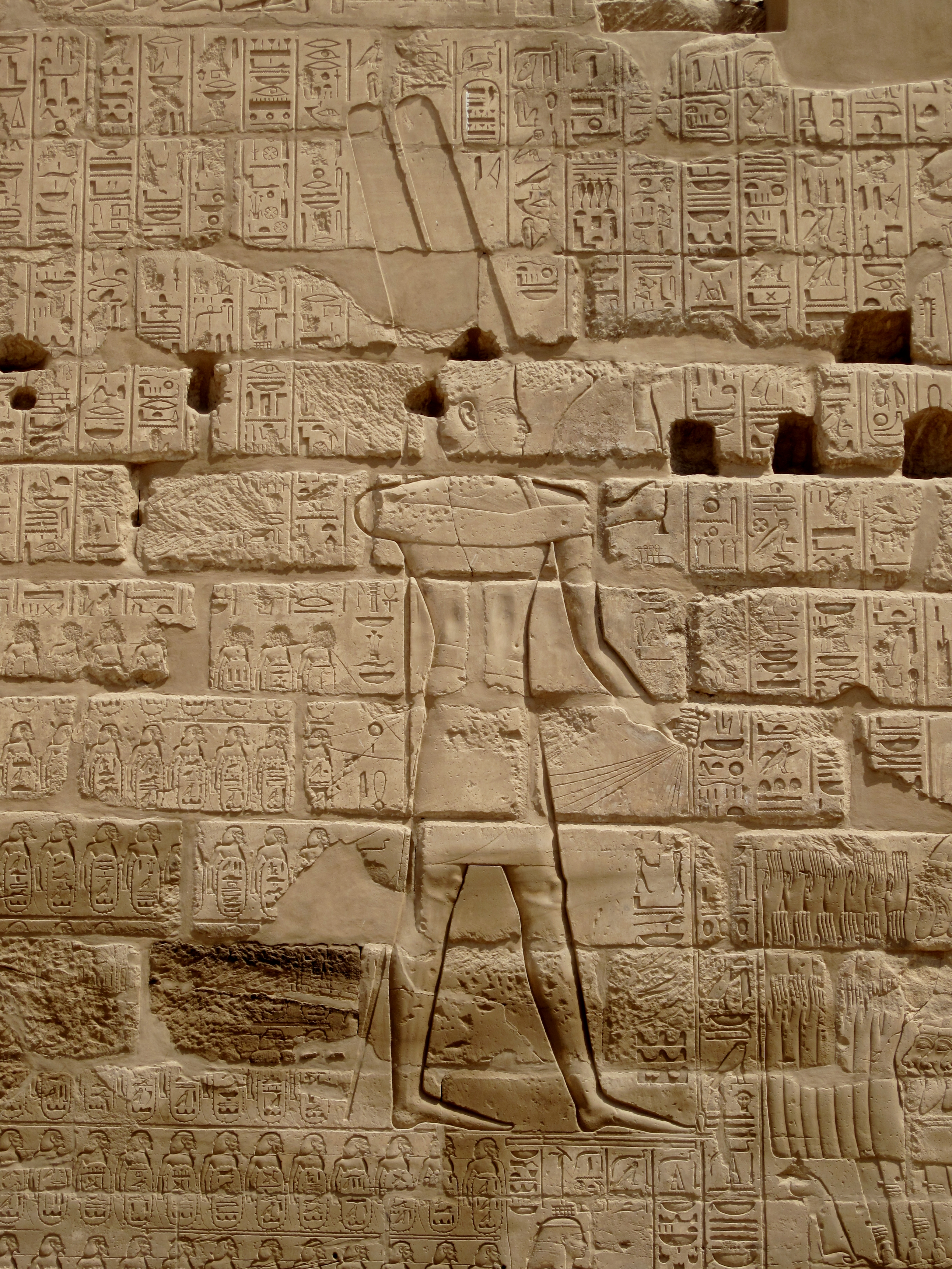 The Relief of Shoshenq I's campaign list at the southern exterior walls of the temple of Karnak, north of Luxor, Egypt.